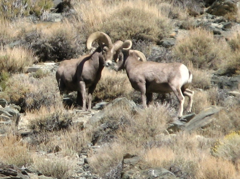 Bighorn sheep in Silver Canyon near the town of Bishop. Image taken by this contributor on 24 October 2007